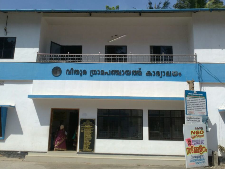 Office building of Vithura Grama Panchayat located at Koppam , Vithura